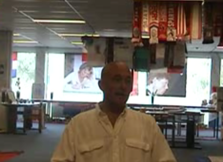 Peter Siebelt during a lecture in "De Spaanse Kubus" in Rotterdam. Still from the video "Siebelt in de Kubus", 2005